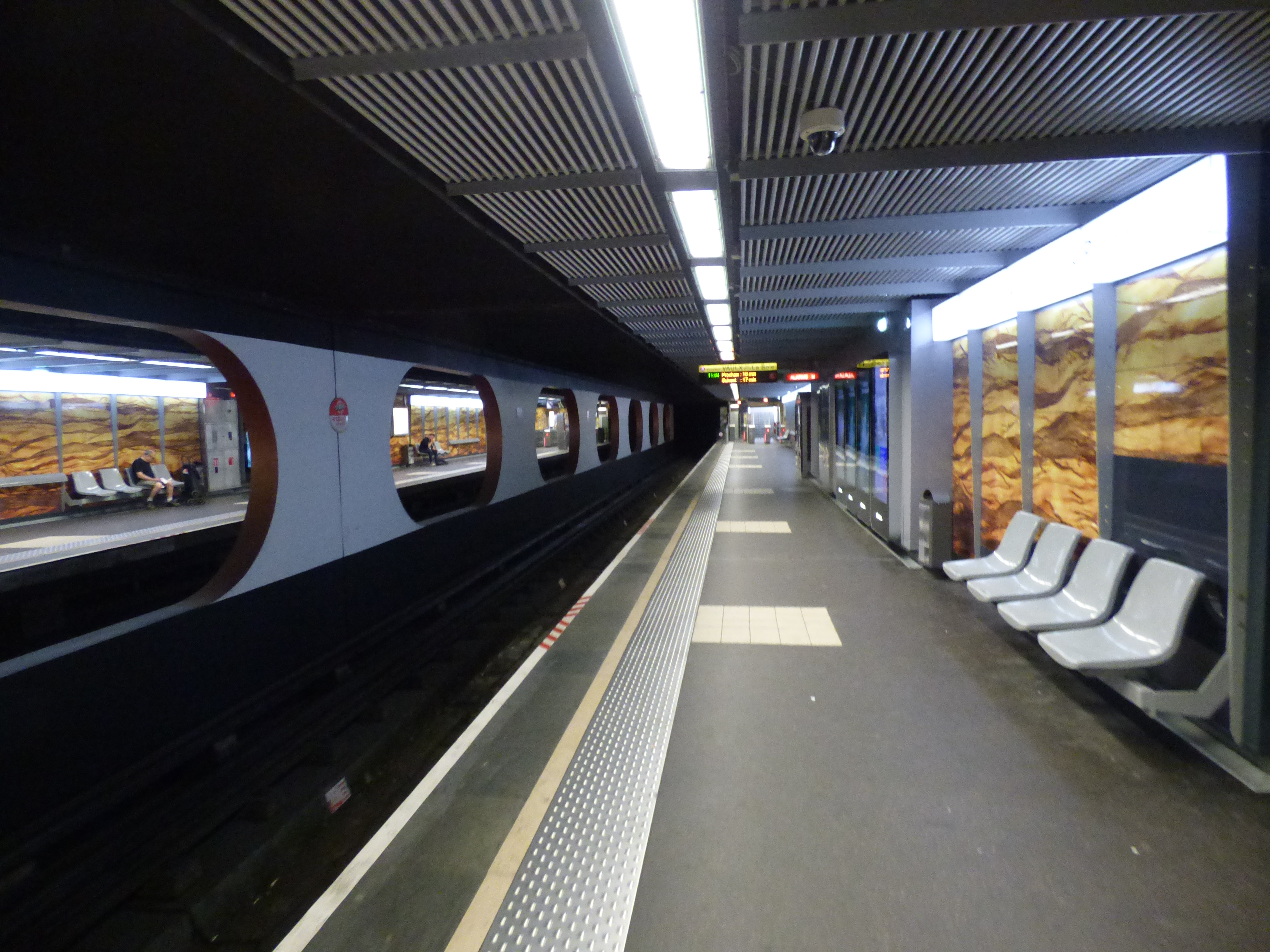 Shortly after arriving at Hôtel de Ville Louis Pradel on the Lyon Metro. The station is near the Place Louis Pradel and the Hôtel de Ville de Lyon (Lyon City Hall). We were heading to the Museum of Fine Arts in Lyon (Musée des Beaux-Arts de Lyon), which wasn't too far away in Place Des Terreaux (if we could find it). The Lyon Metro (French: Métro de Lyon) is the metro system of Lyon, France. It first opened in 1978 (although the metro's current Line C opened, independently, earlier, in 1974). The Lyon Metro currently consists of four lines, serving 40 stations (44 when counting transfer stations twice), and comprising 32.0 kilometres (19.9 mi) of route. It is part of the Transports en Commun Lyonnais (TCL) system of public transport, and is supported by Lyon's network of tramways. Unlike all other French metro systems, but like the SNCF and RER, Lyon Metro trains run on the left. This is the result of an unrealised project to run the metro into the suburbs on existing railway lines. The loading gauge for lines A, B, and D is 2.90 m (9 ft 6.2 in), more generous than the average for metros in Europe. The loading gauge for line C is 2.78 m (9 ft 1.4 in). The Lyon Metro owes its inspiration to the Montreal Metro which was built a few years prior, and has similar (wider) rubber-wheel cars and station design. The metro had 740,000 daily weekday boardings in 2011. Hôtel de Ville Louis Pradel is on Lyon Metro line A. Line C also starts from here towards Cuire.